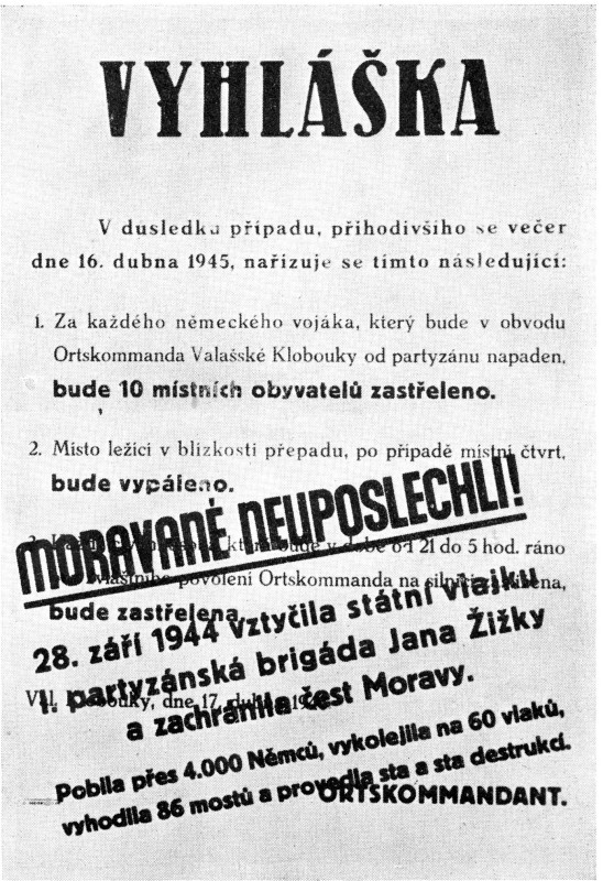 Partyzan response to the German decree of 17 April 1945